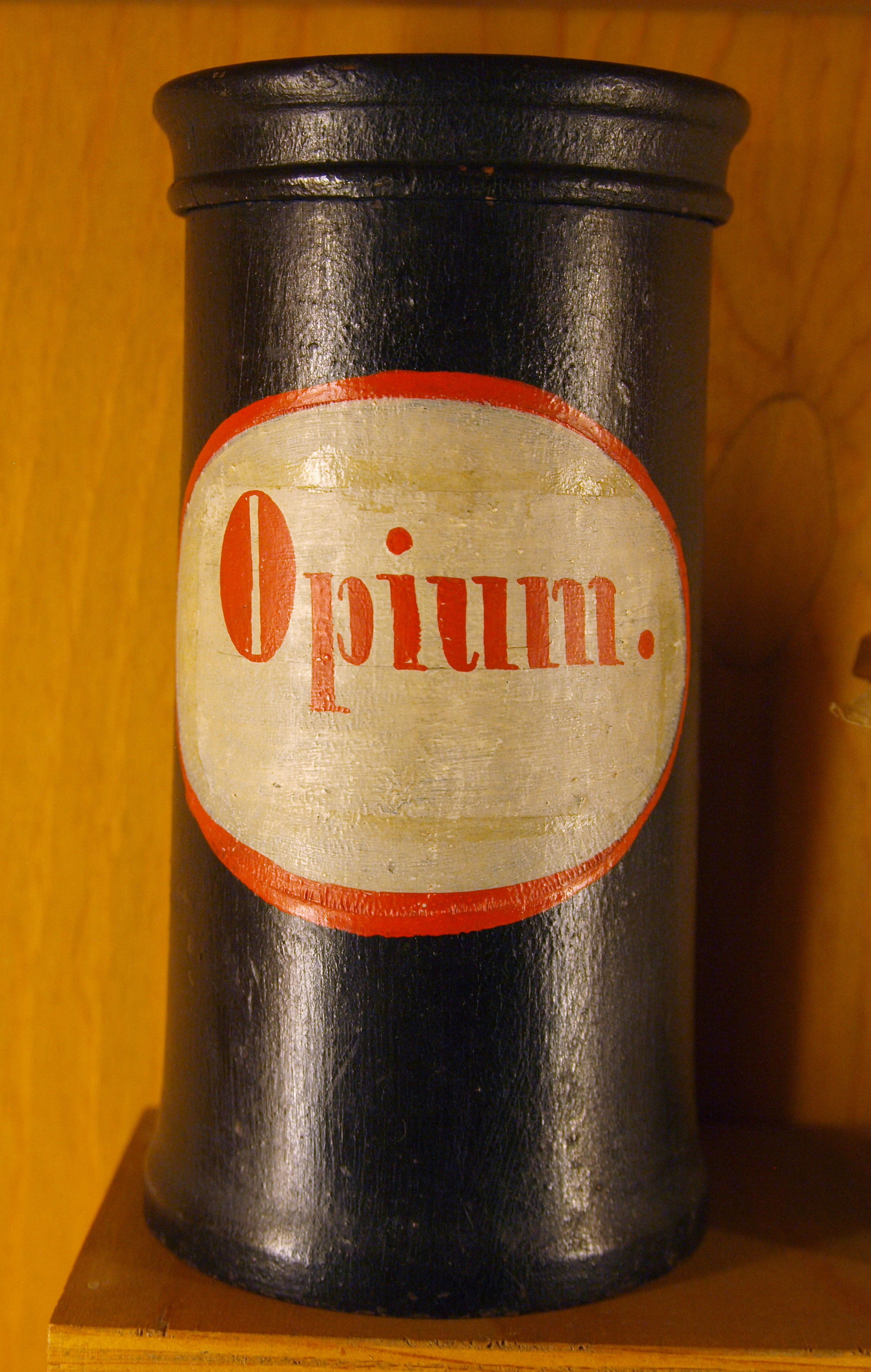 Apothecary vessel for storage of Opium as a pharmaceutical from the 18th or 19th century at Deutsches Apothekenmuseum Heidelberg, Germany.